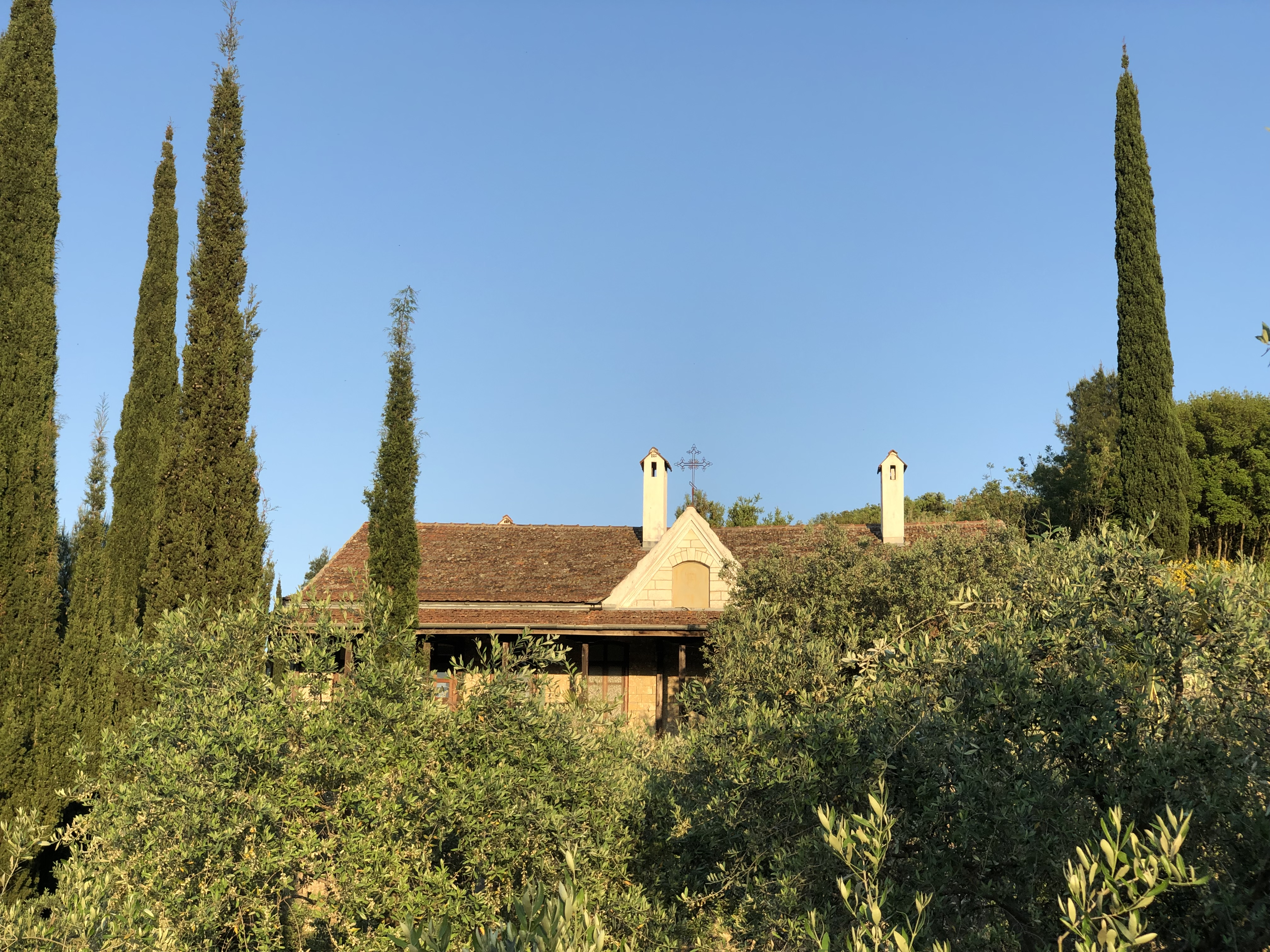 Veroljub Atanasijevic, architect. Mount Athos, Agios Oros, Greece - Serbian Monastery Hilandar (Chilandar) Hospital, reconstruction, 2000. The first Serbian hospital founded in Hilandar Monastery in 1191.